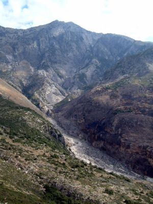 Mount Çikë in southern Albania